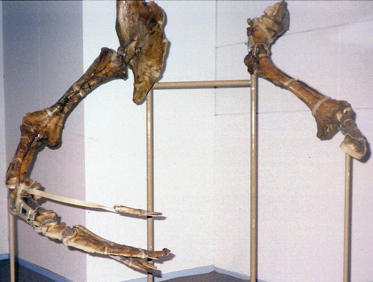 Fossil Therizinosaurus arms from Mongolia, exhibited in Experimentarium, Denmark.